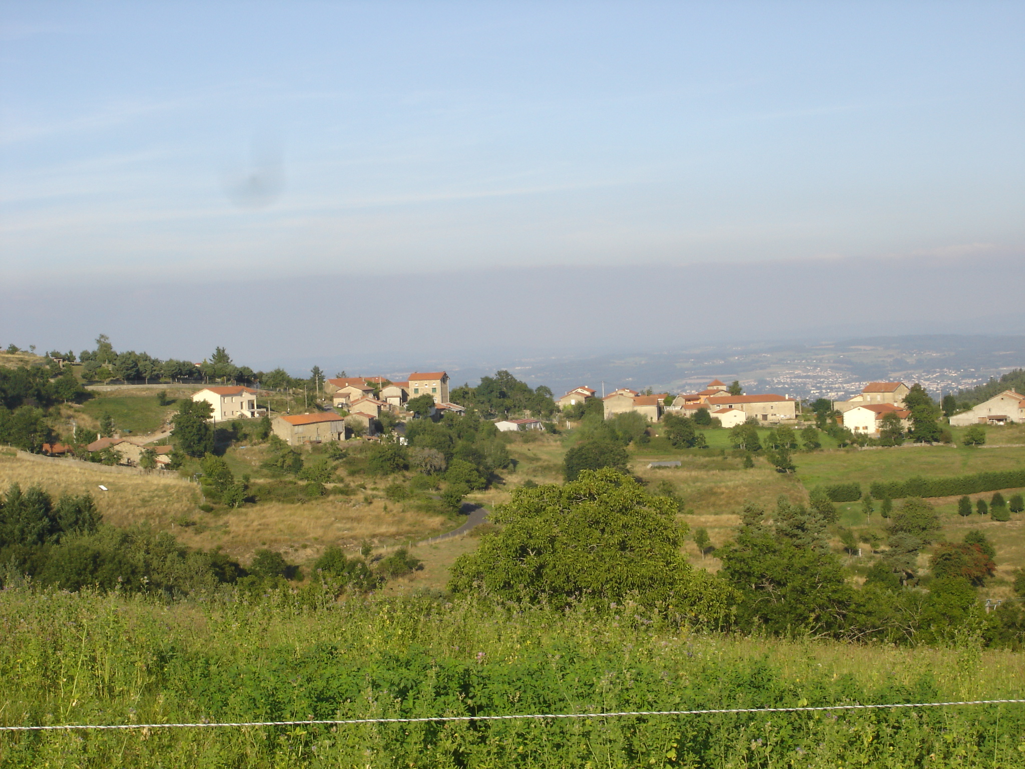 a view of Chales